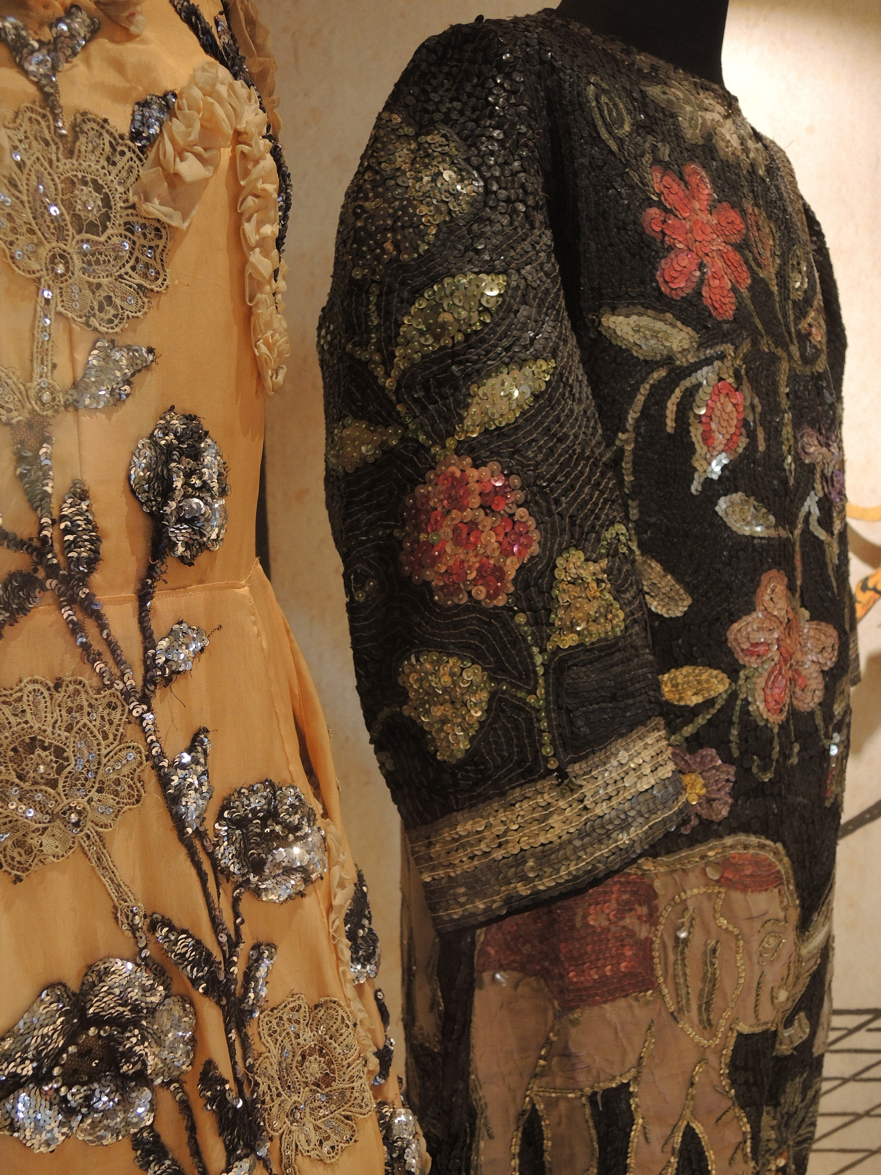 Collection of the Stadtmuseum (museum of local history) in Rapperswil (Switzerland)